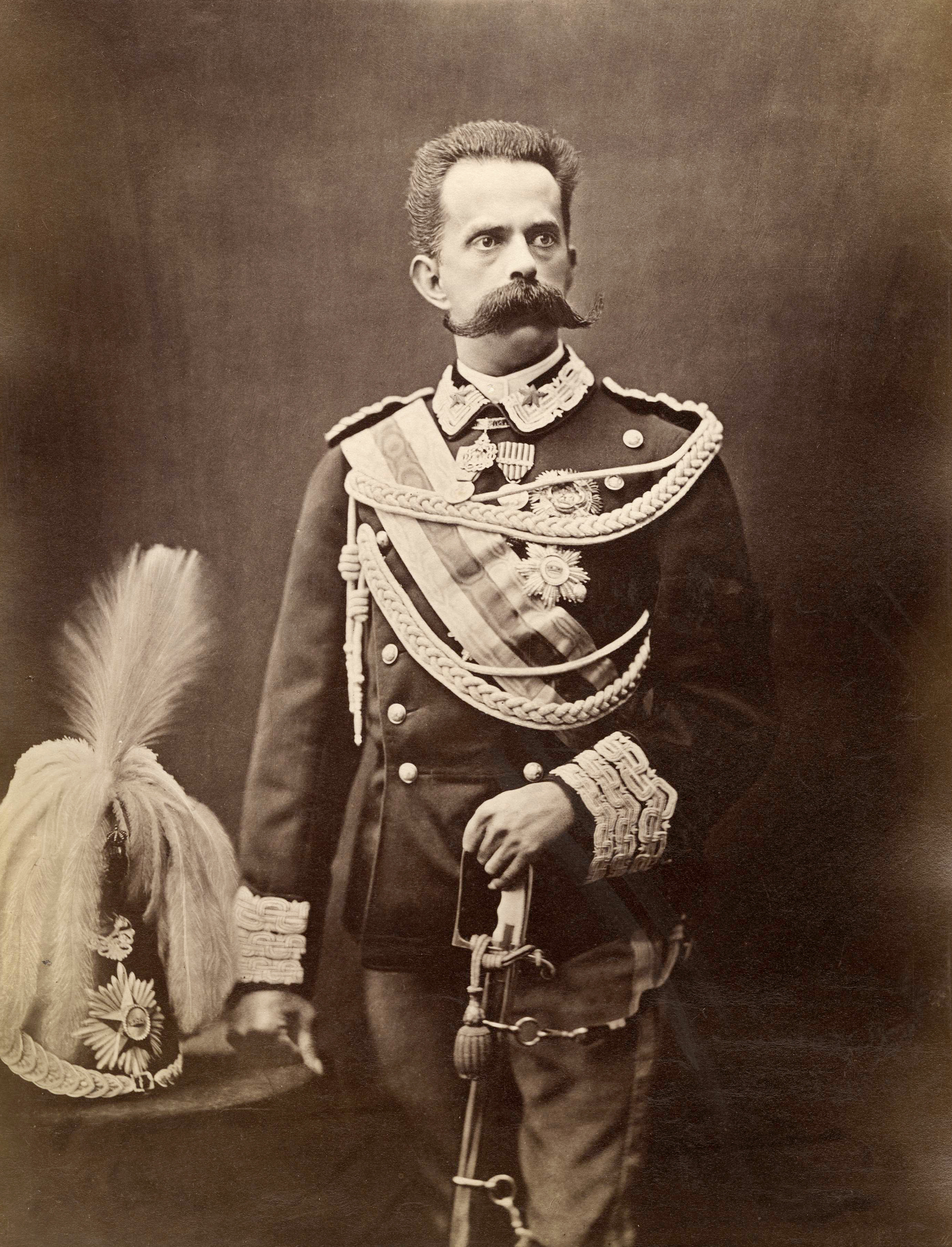 Fratelli Vianelli (Venice), King Umberto I di Savoia.